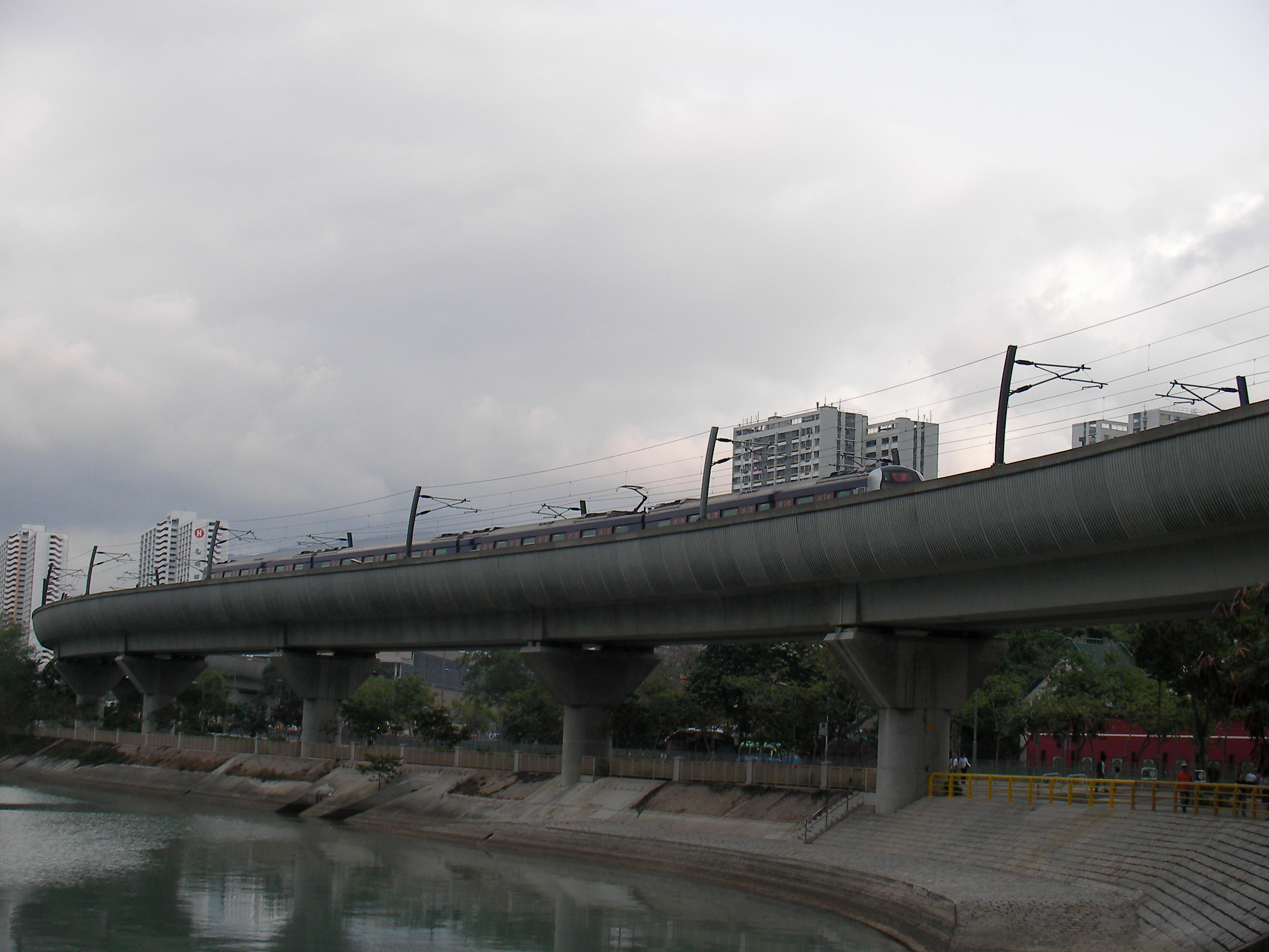 A motoring MTR Ma On Shan Line Train (Che Kung Temple Station → Tai Wai Station)